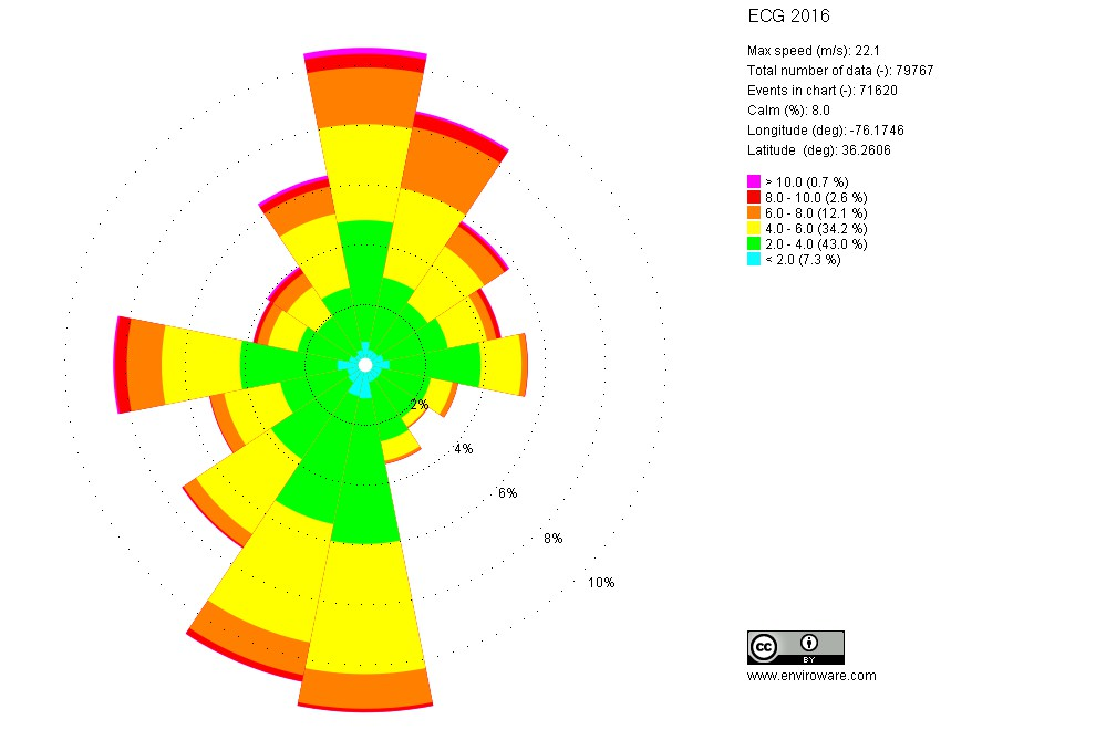 Wind rose showing distribution of wind speed and direction for Elizabeth City Regional Airport for the year 2016.